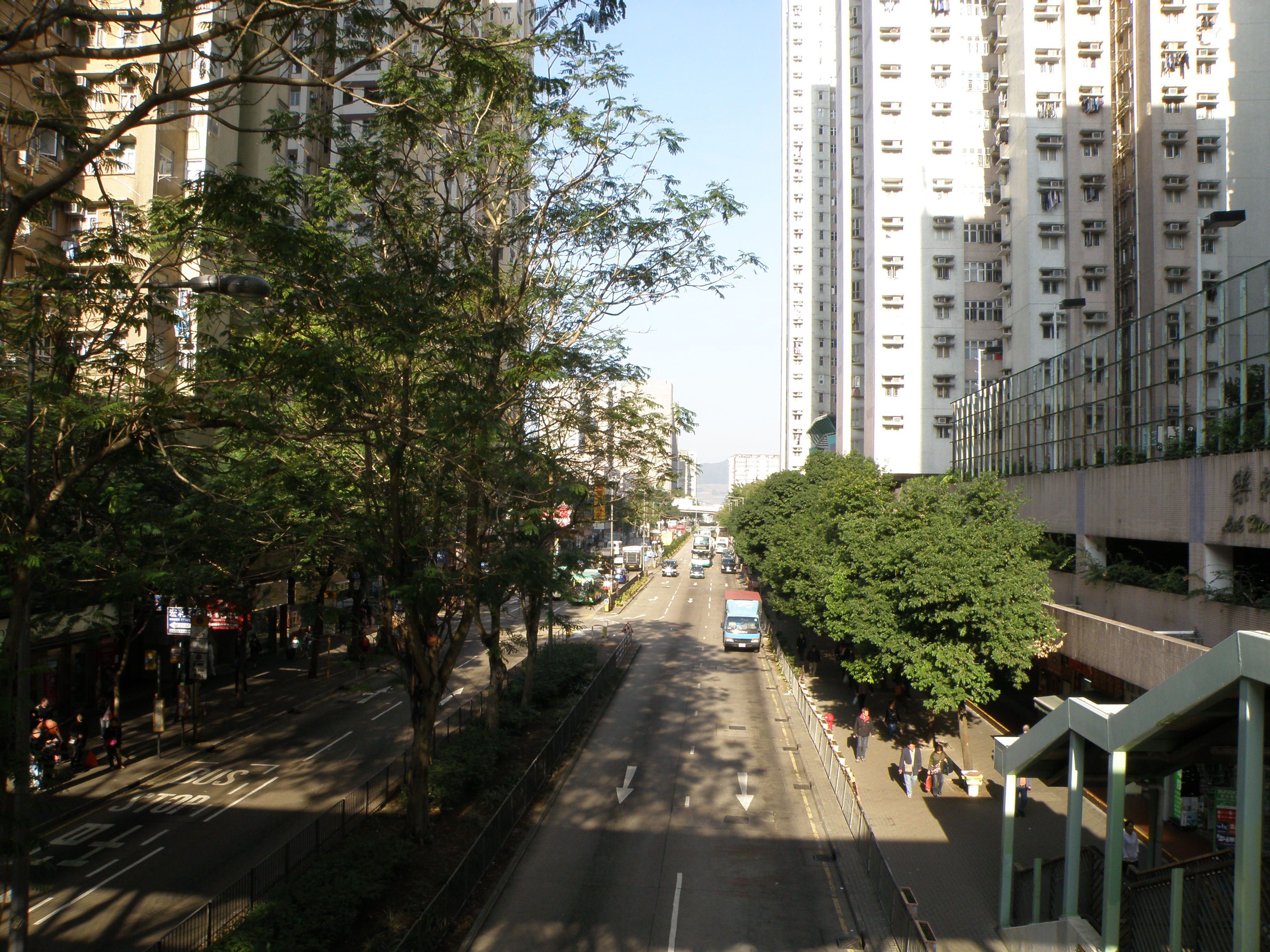 Chai Wan Road in Chai Wan, Hong Kong.